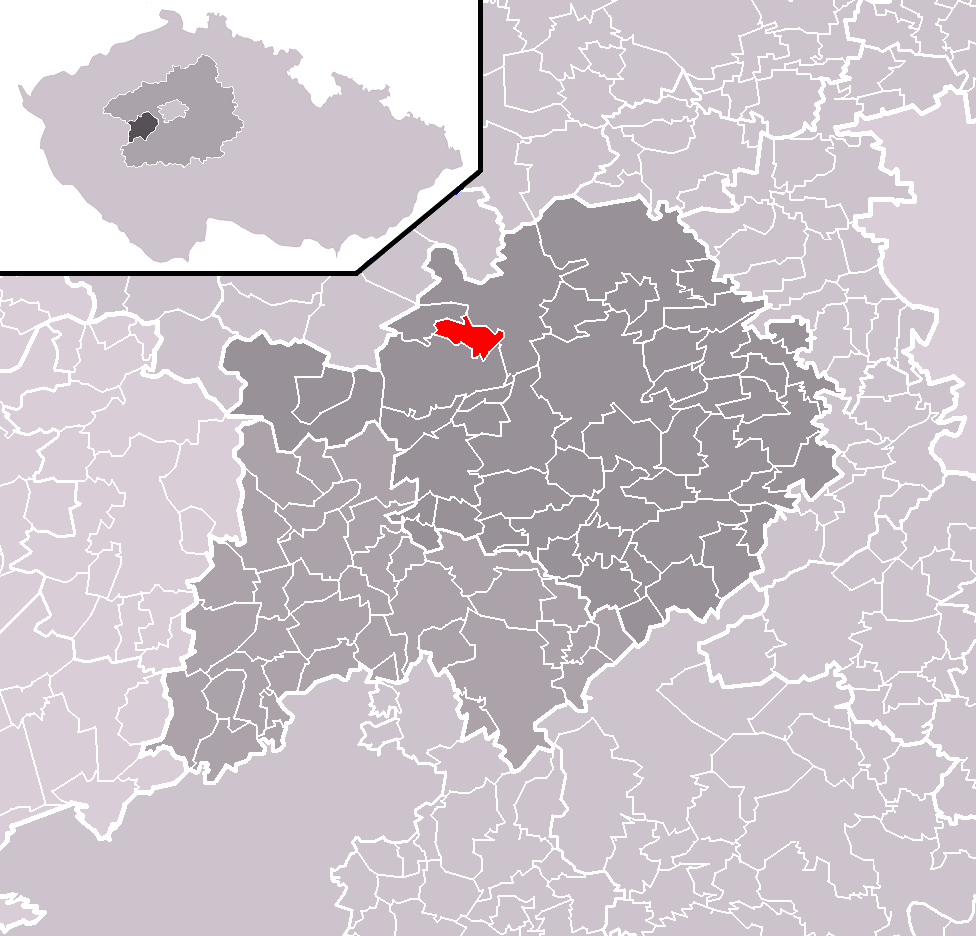 Location of Otročiněves municipality within Beroun District and administrative area of Beroun as a Municipality with Extended Competence.